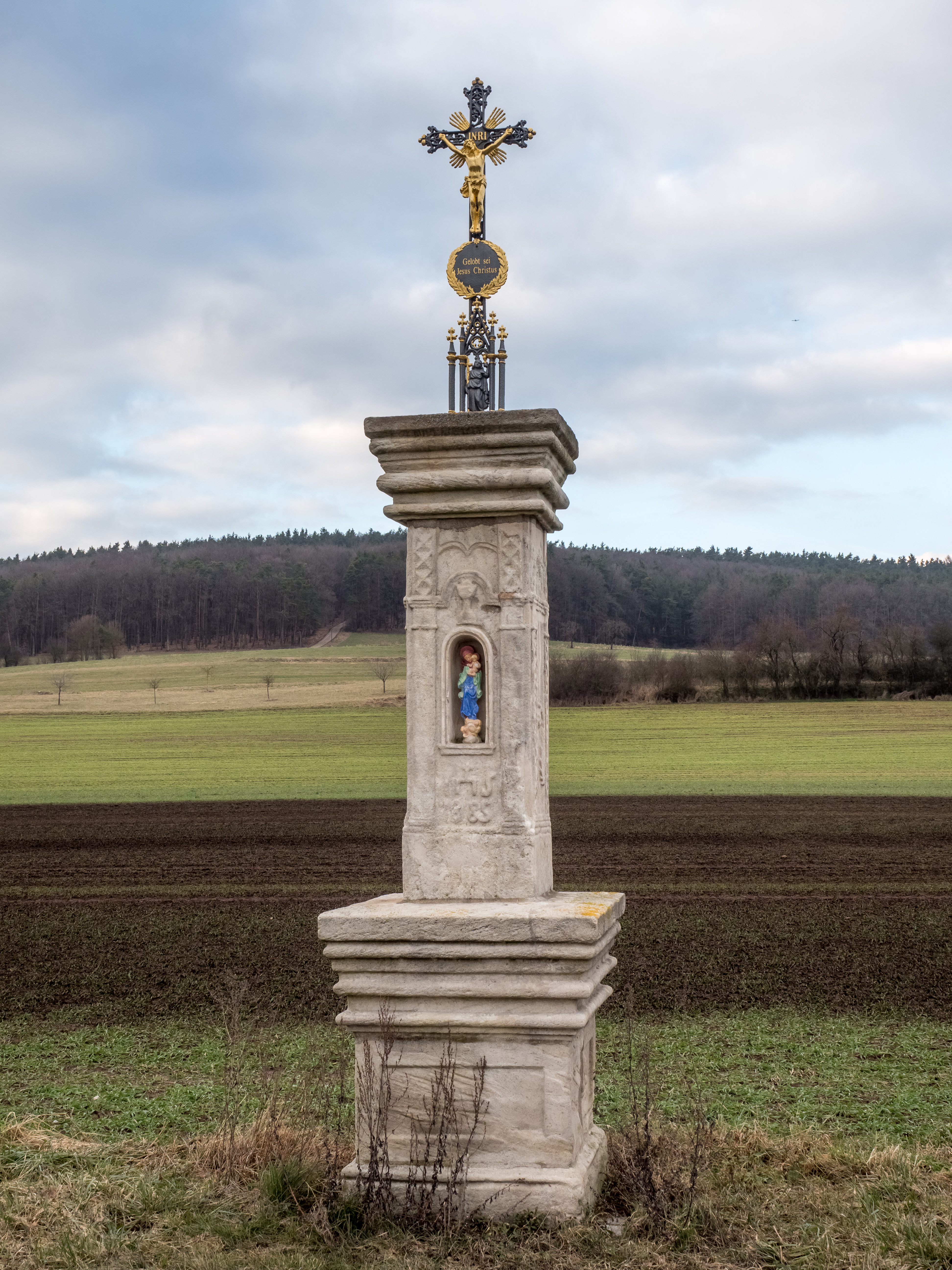 Torture column between Greuth and Stiebarlimbach ref. 1885